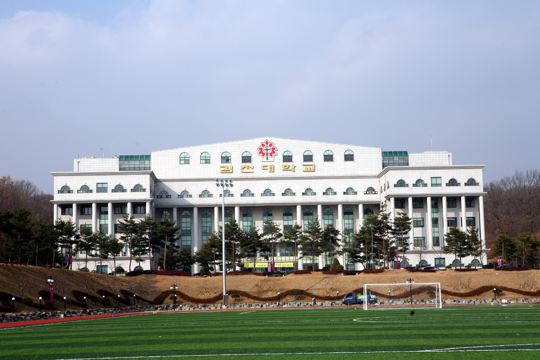 Gimcheon-university-mainbuilding